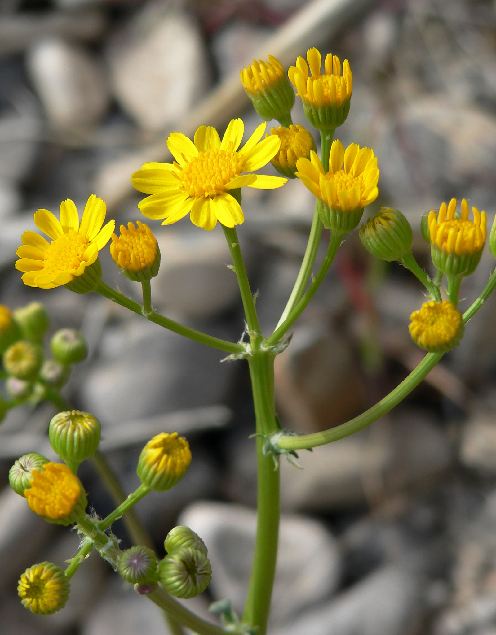 Packera multilobata near the road in lower Kyle Canyon, Spring Mountains, southern Nevada (elev. about 1600 m)